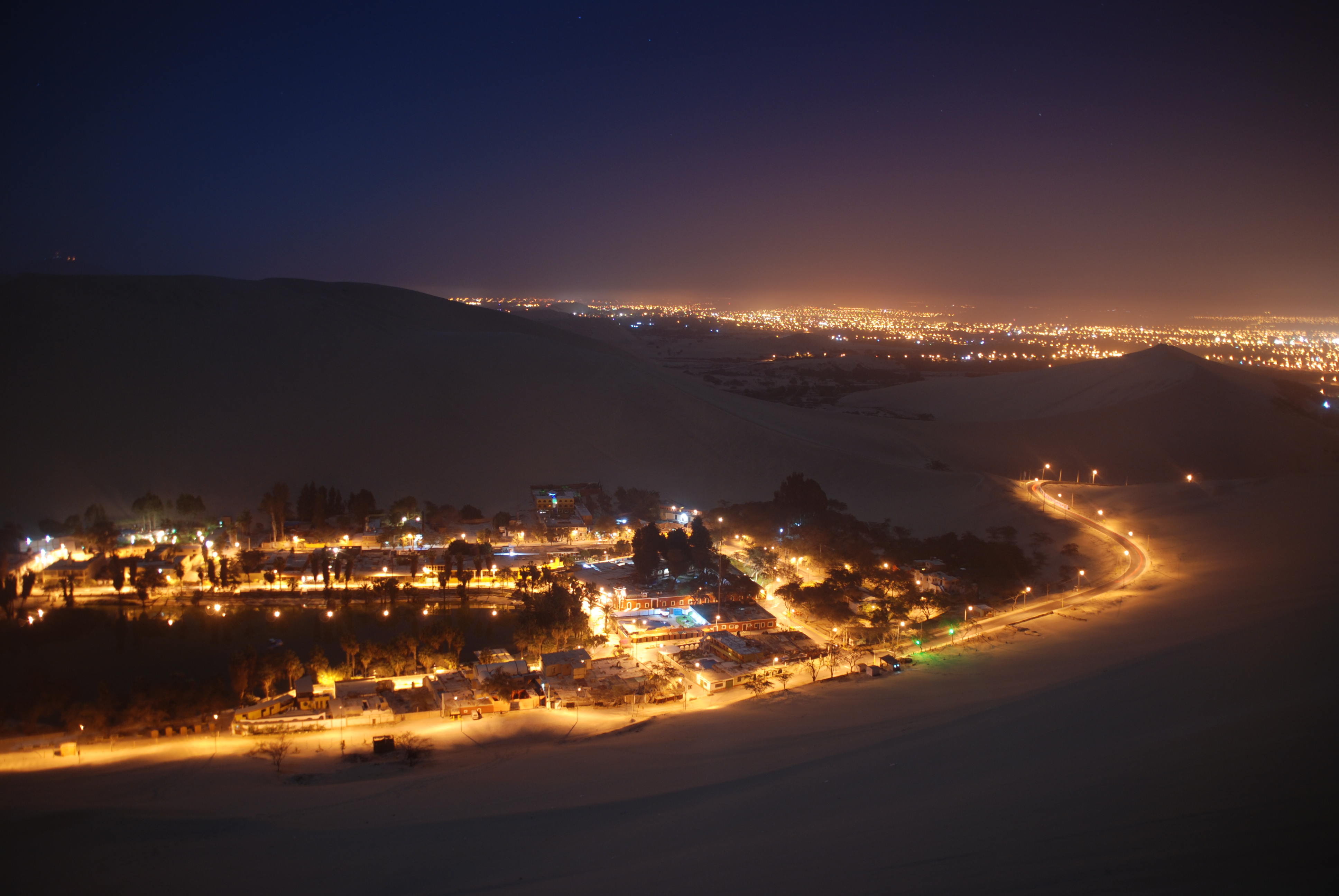 View of the Huacachina Oasis with the city of Ica in the background at 1AM — Peru.